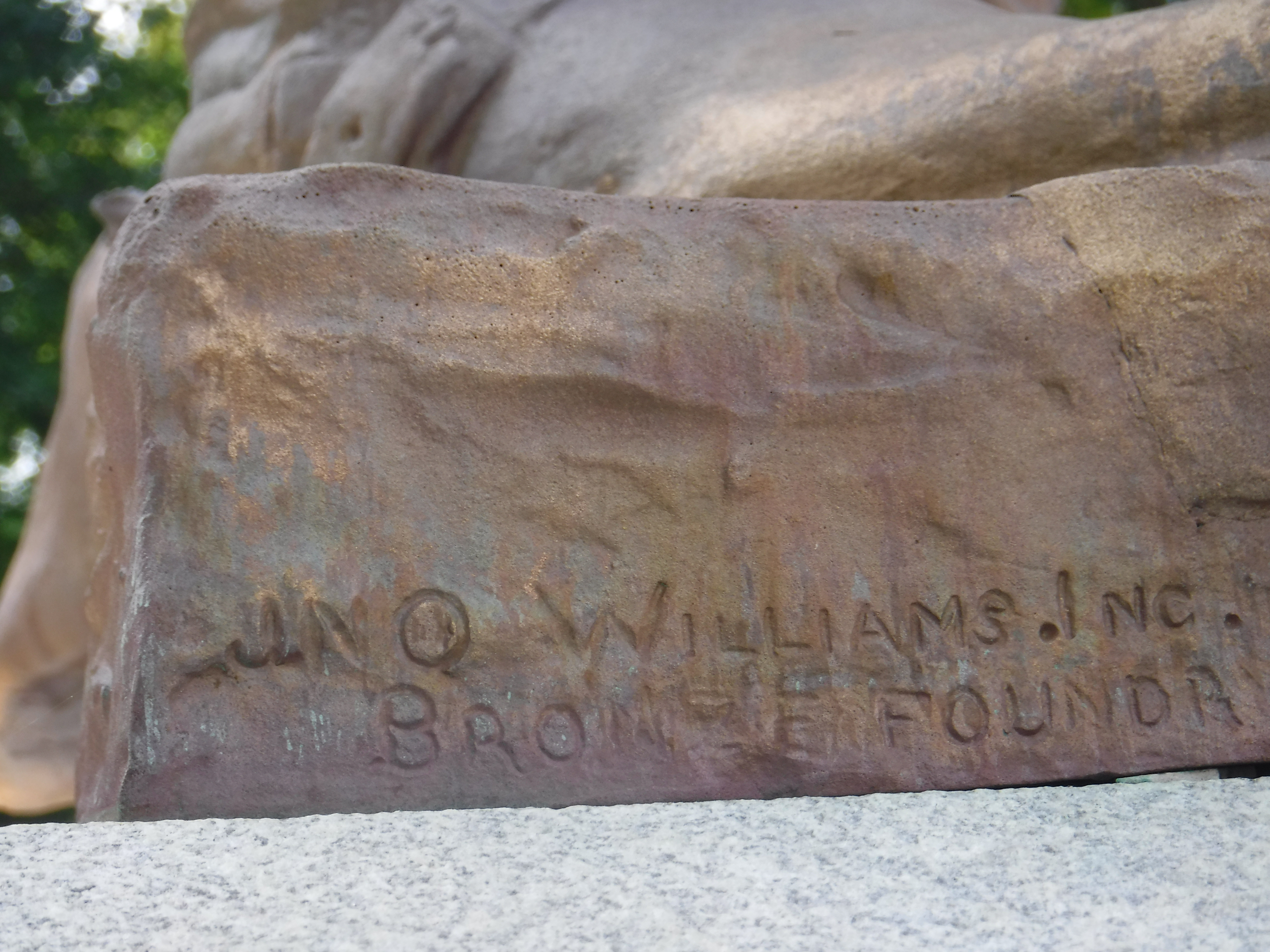 This statue of Col. William Crawford was made by Connellsville artist Samuel Kilpatrick, and cast by the JNO Williams Inc, Foundry N.Y.